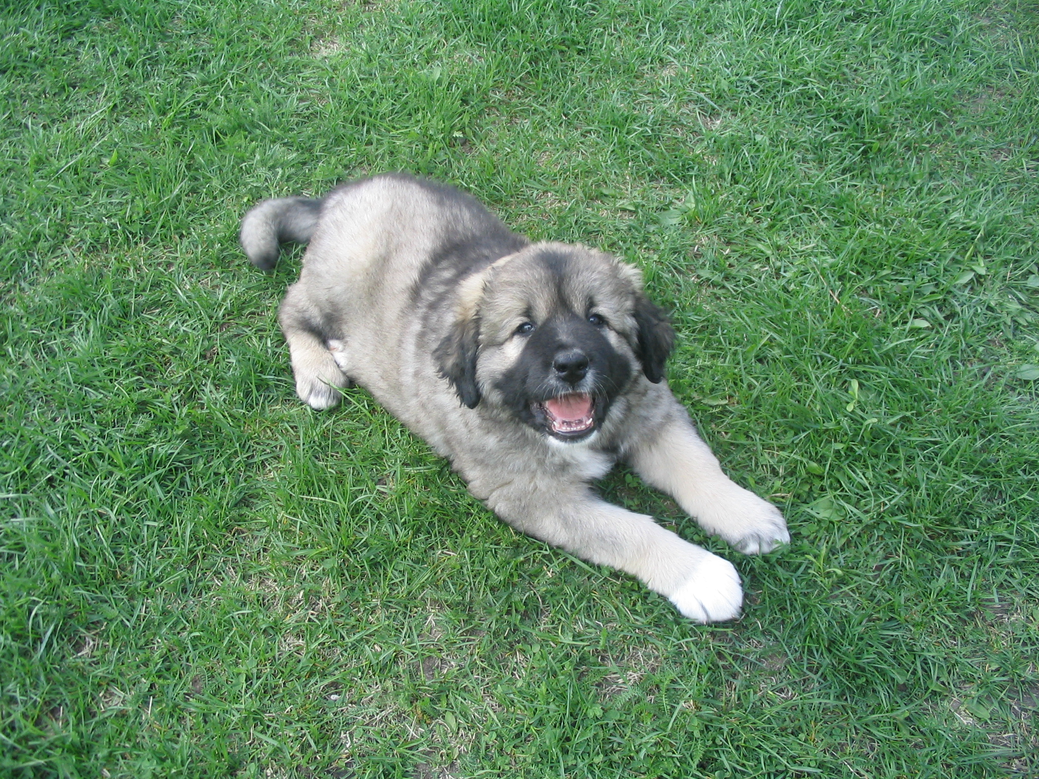 A Caucasian Shepherd Dog puppy.